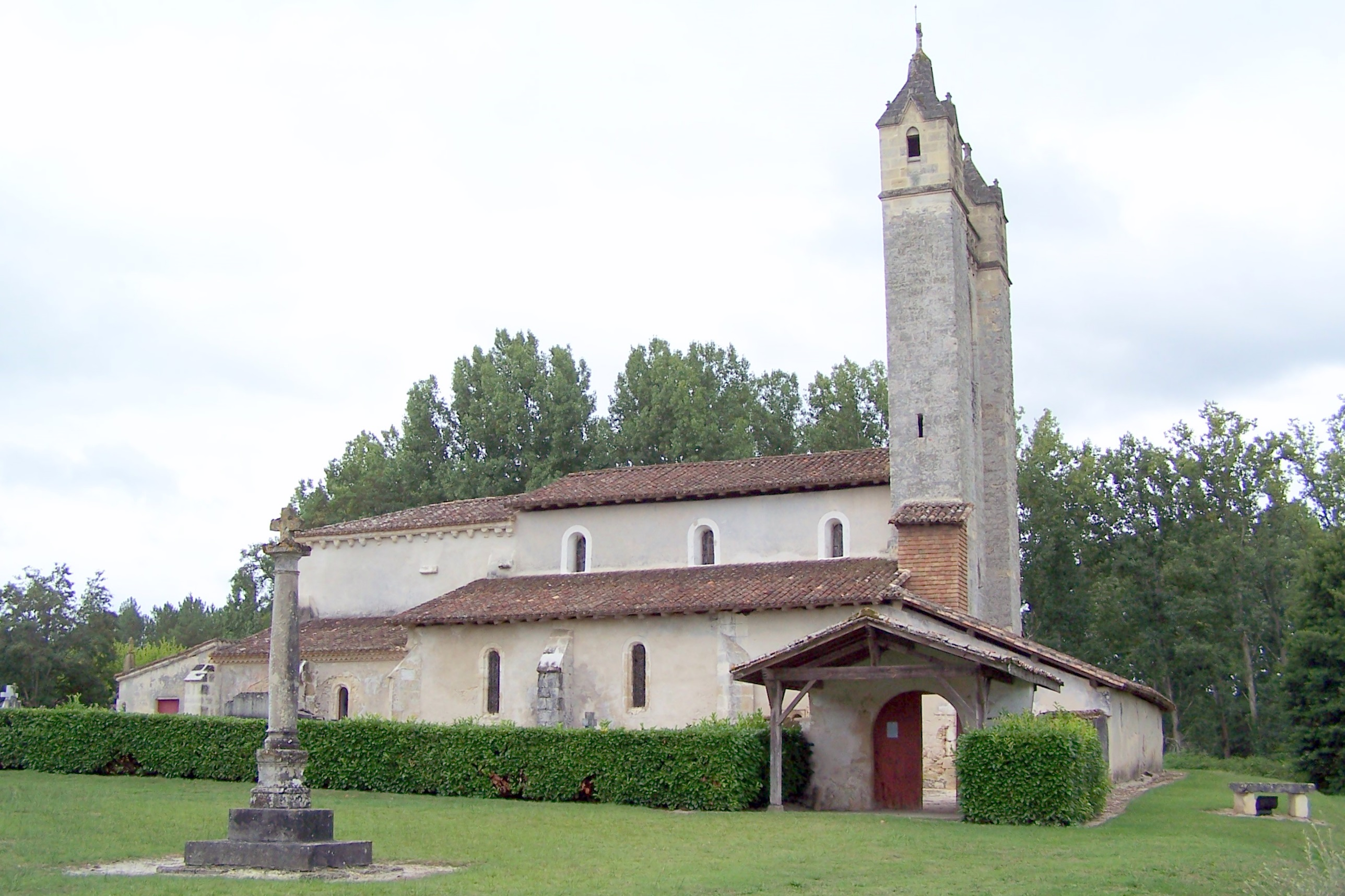 Church Our Lady of Escaudes (Gironde, France)